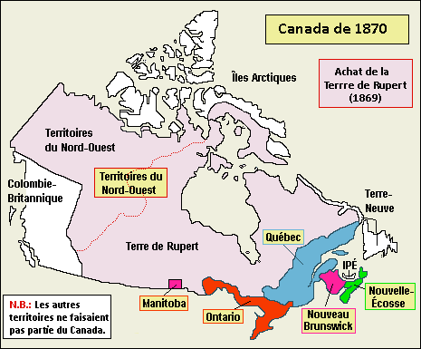 Canada après l'acquisition des terres de Rupert et du territoire du Nord-Ouest